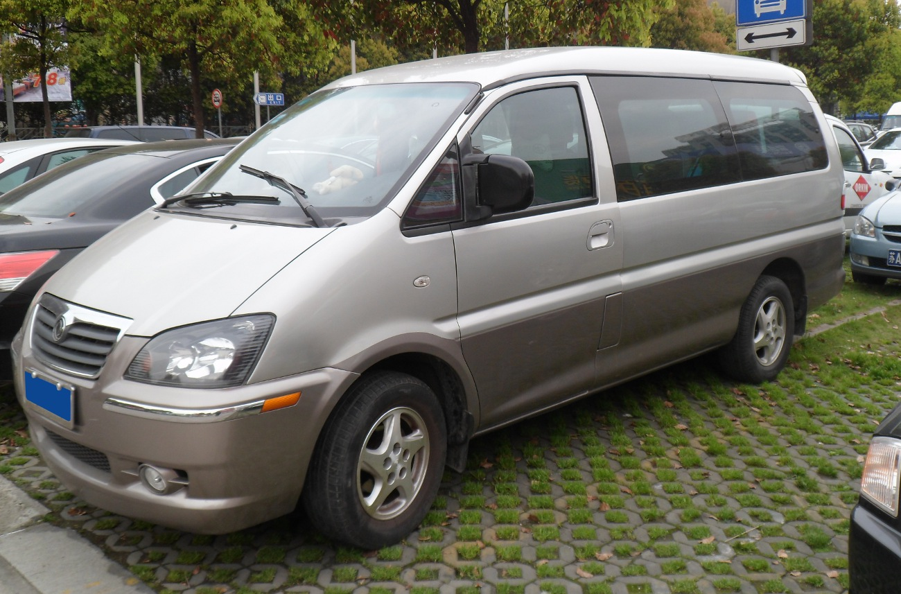 Dongfeng Fengxing Lingzhi photographed in Shanghai, China.